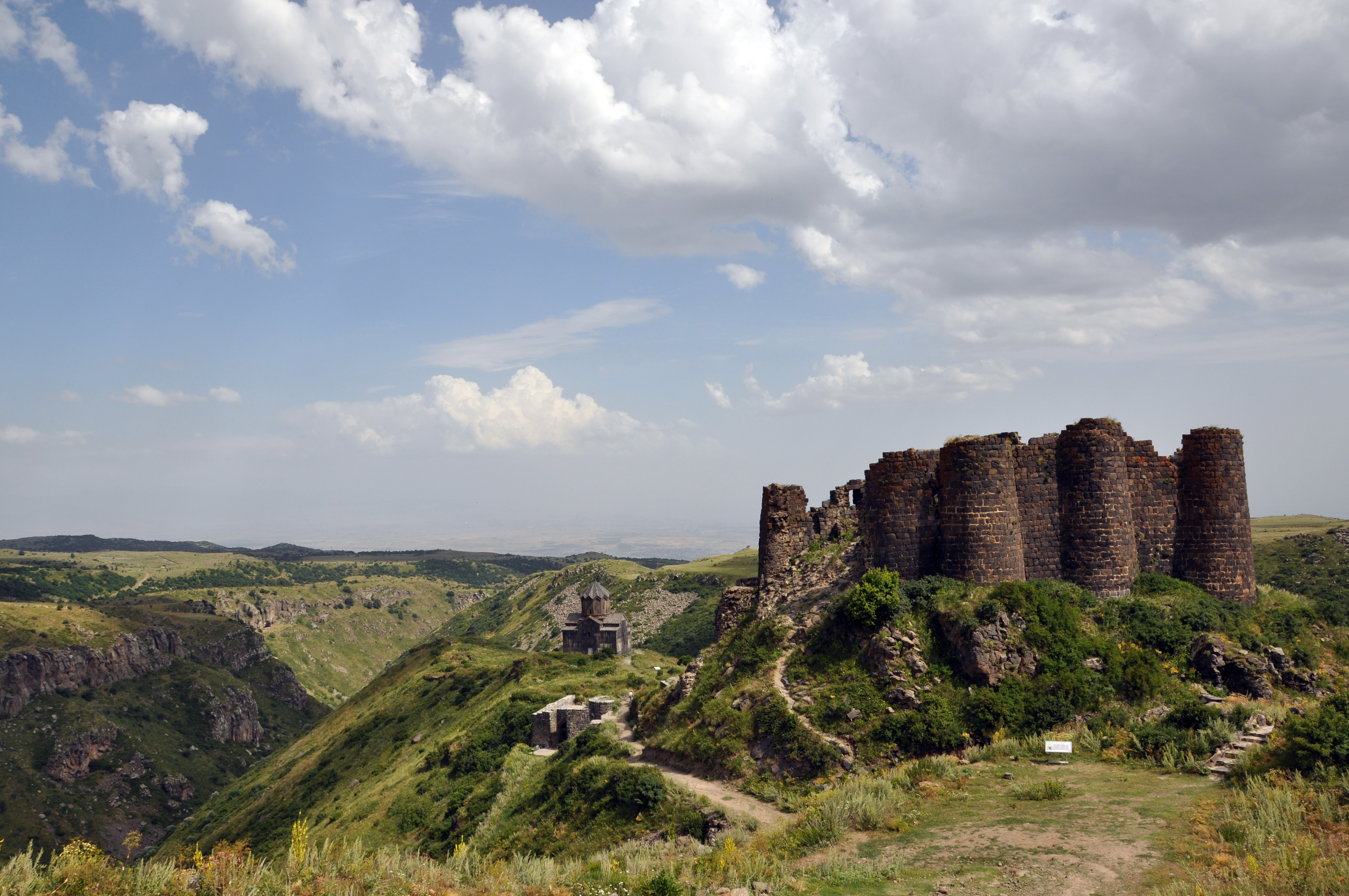 Amberd